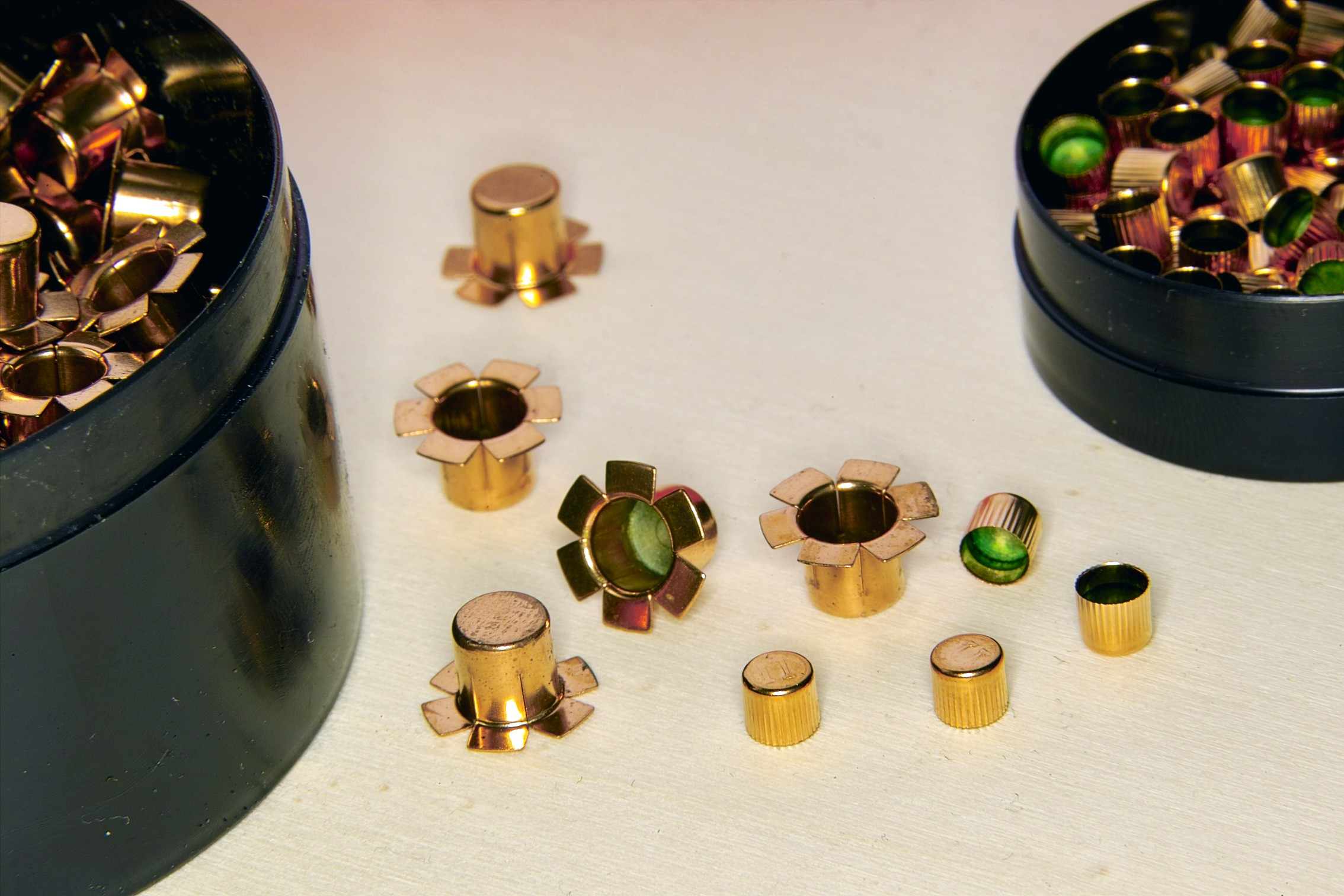 Percussion caps, diameters 4.5mm and 6.0mm